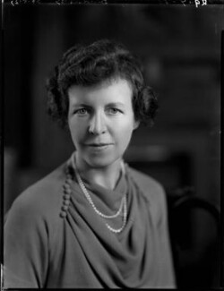 Photographic portrait of Francis Davidson